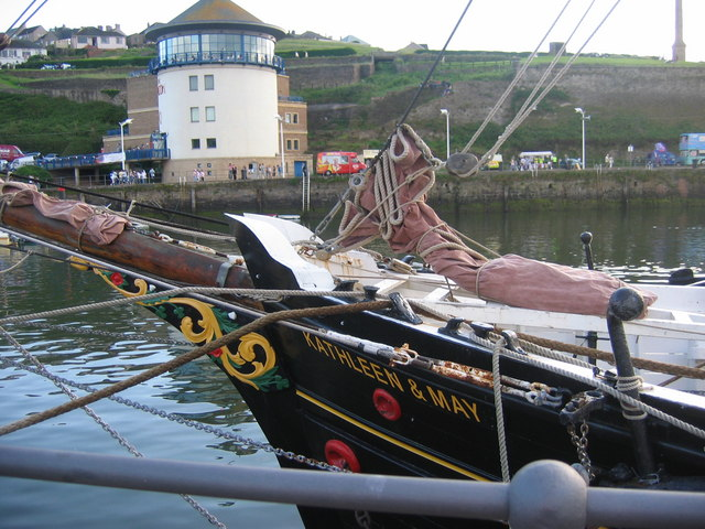 Whitehaven Maritime Festival 2005 The tall ship Kathleen May at the 2005 Whitehaven Maritime Festival, with The Beacon in the background